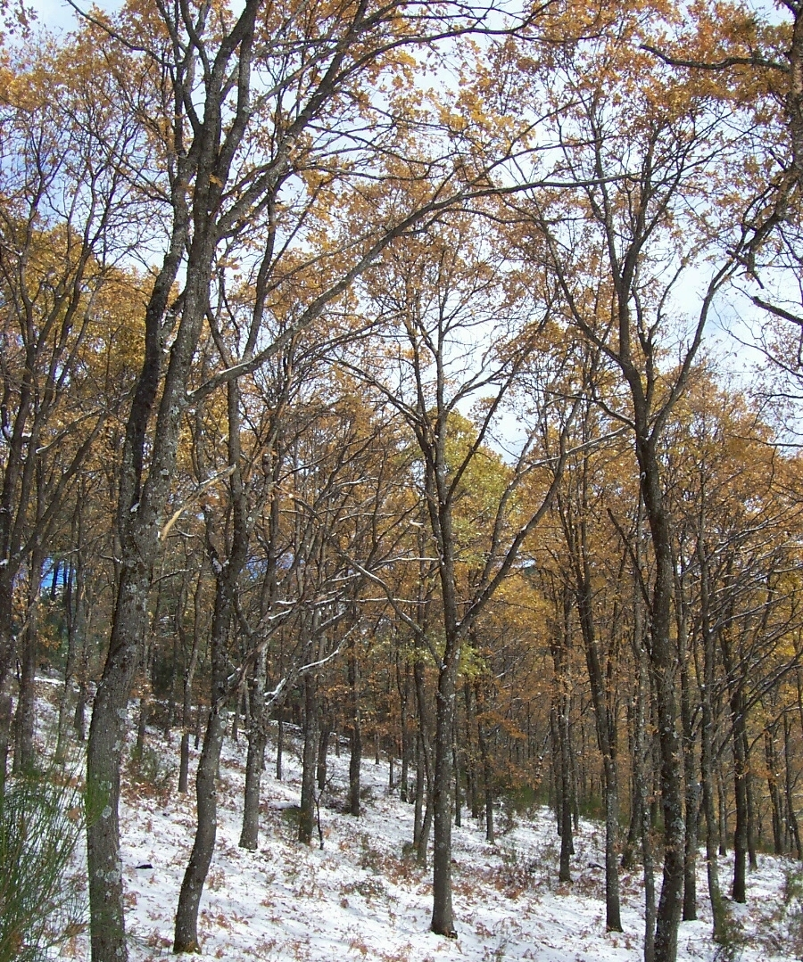 Quercus pyrenaica forest, in Soto del Real, Sierra de Guadarrama, Madrid.